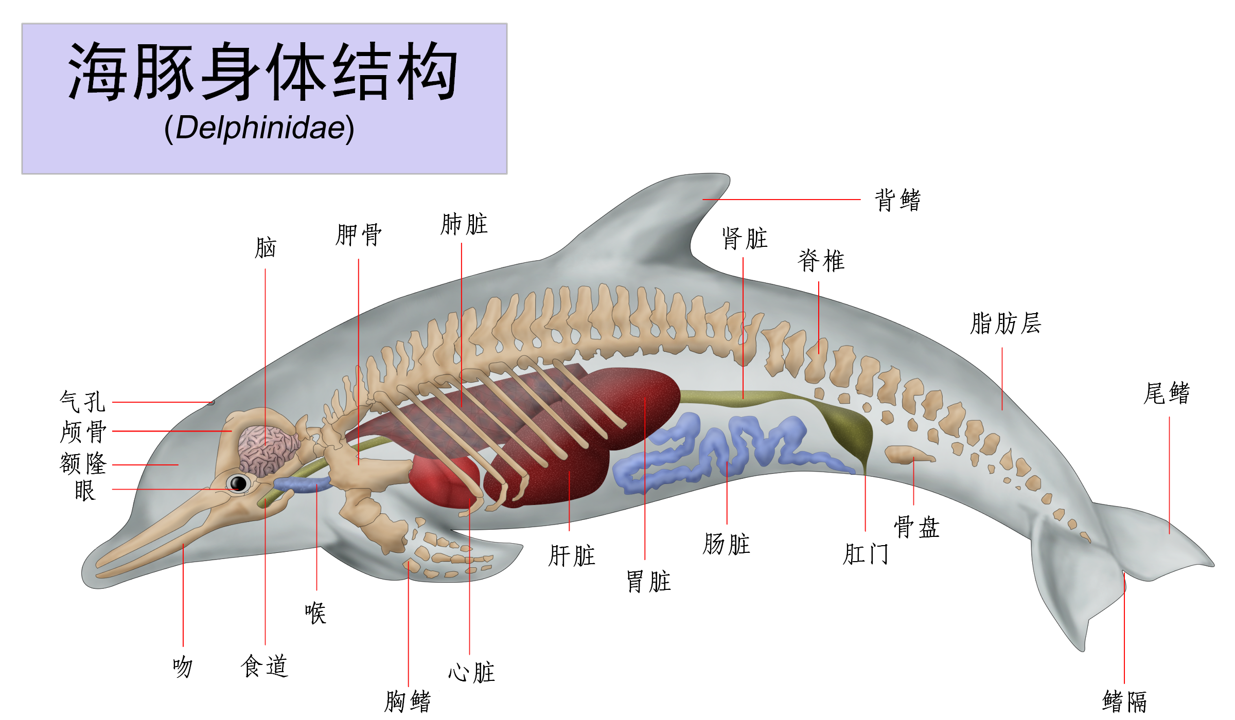 Anatomy of a Dolphin (Simplified Chinese Version)